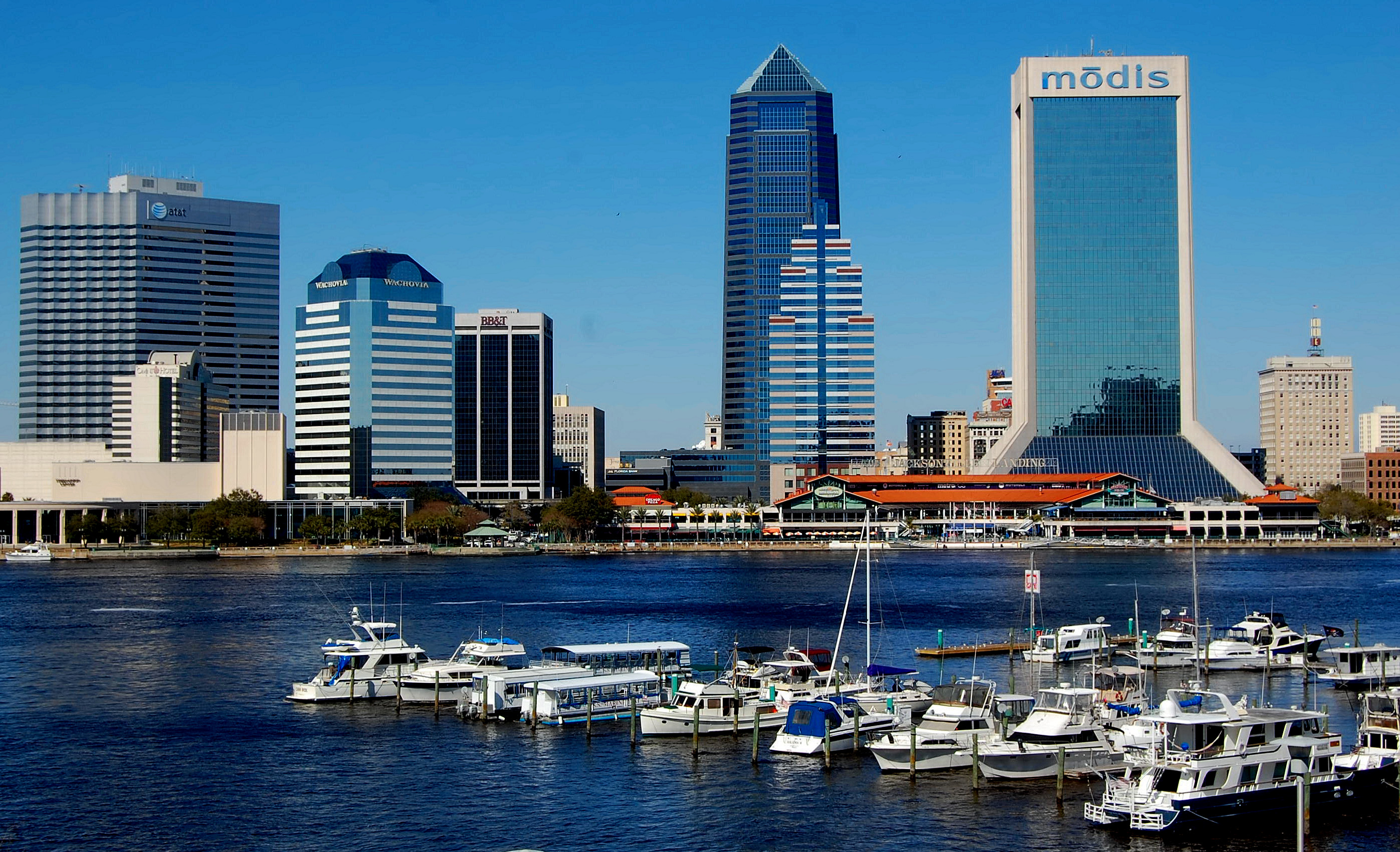 Jacksonville Skyline